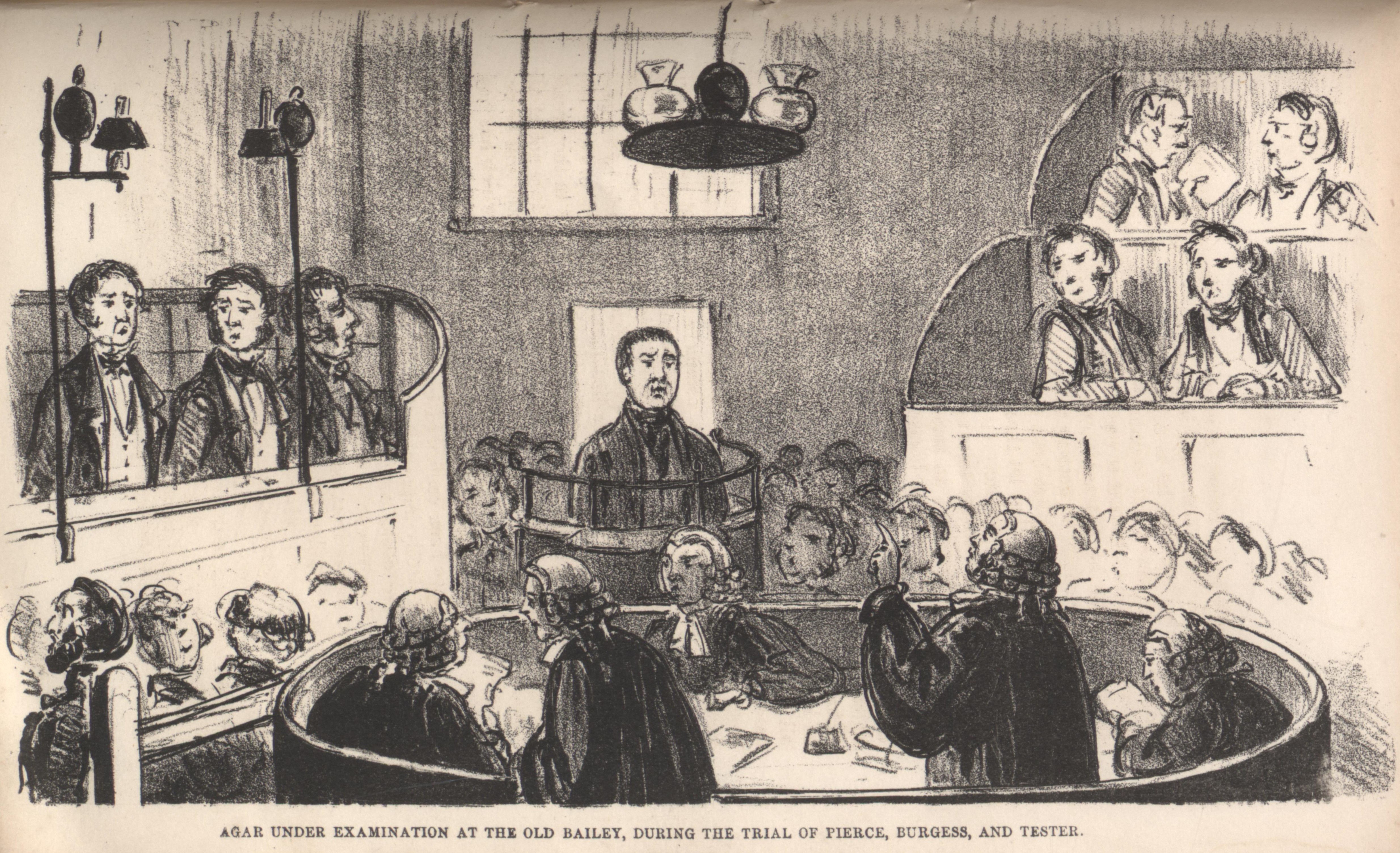 Agar under examination at the Old Bailey, during the trial of Pierce, Burgess and Tester